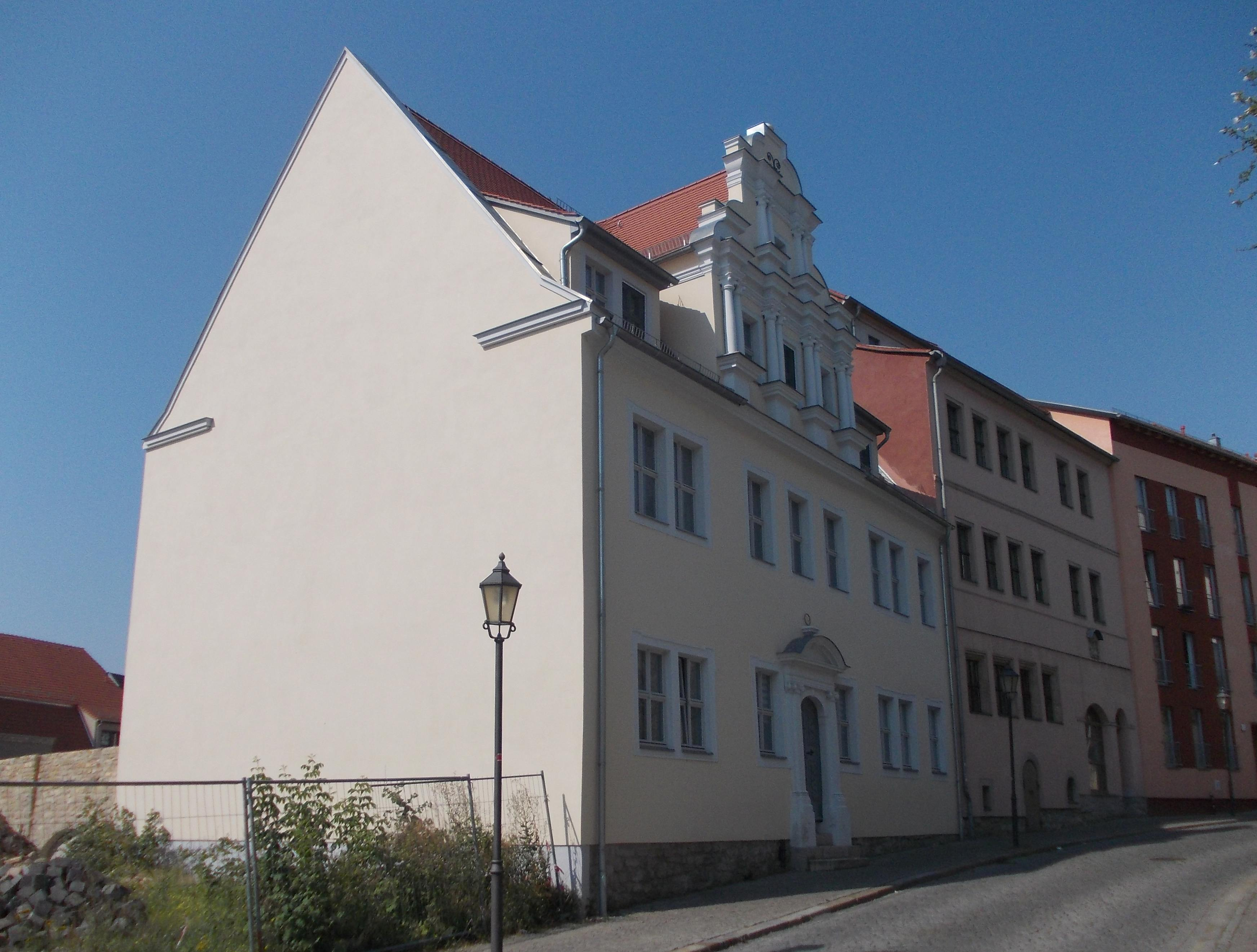 No. 9, Obere Burgstrasse in Merseburg (district: Saalekreis, Saxony-Anhalt)